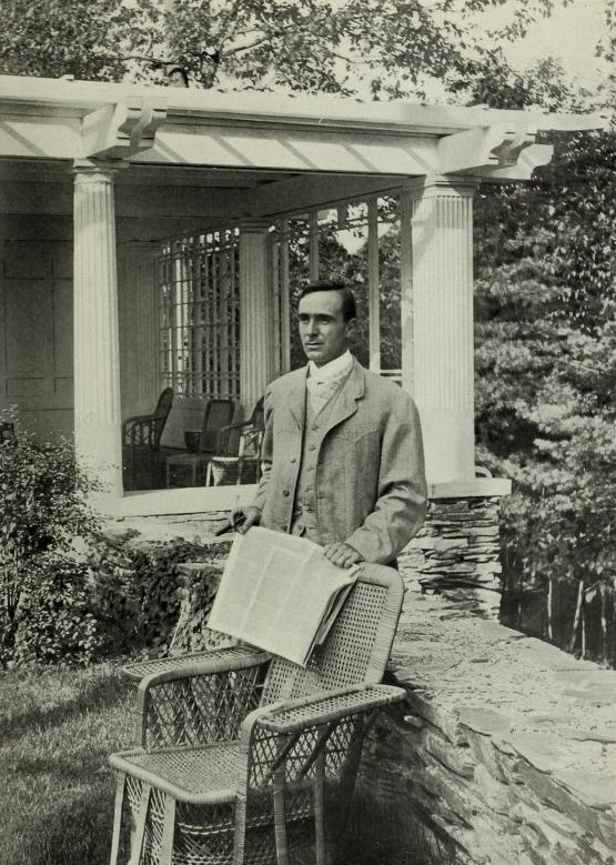 Portrait of Winston Churchill (novelist)